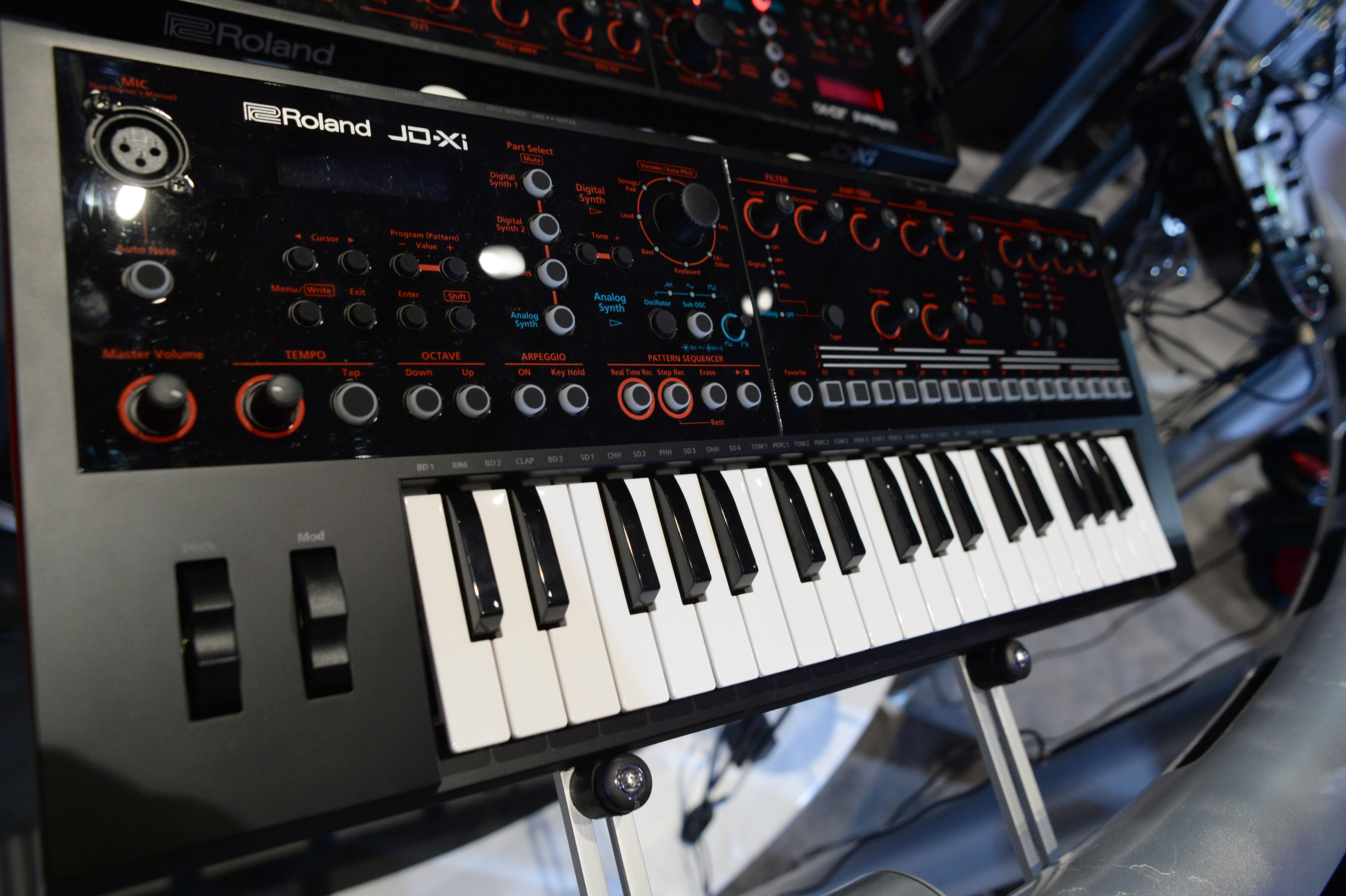 Roland JD-Xi